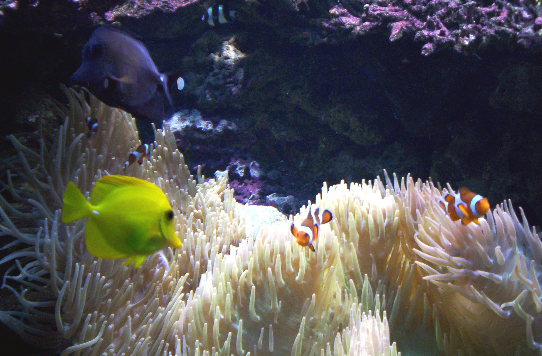 A Zebrasoma flavescens and two Amphiprion cf ocellaris in a marine Aquarium.